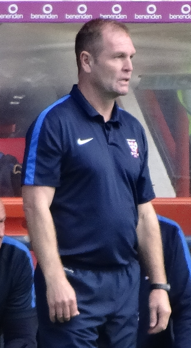 Russ Wilcox on the touchline for York City against Hartlepool United at Bootham Crescent, York on 15 August 2015